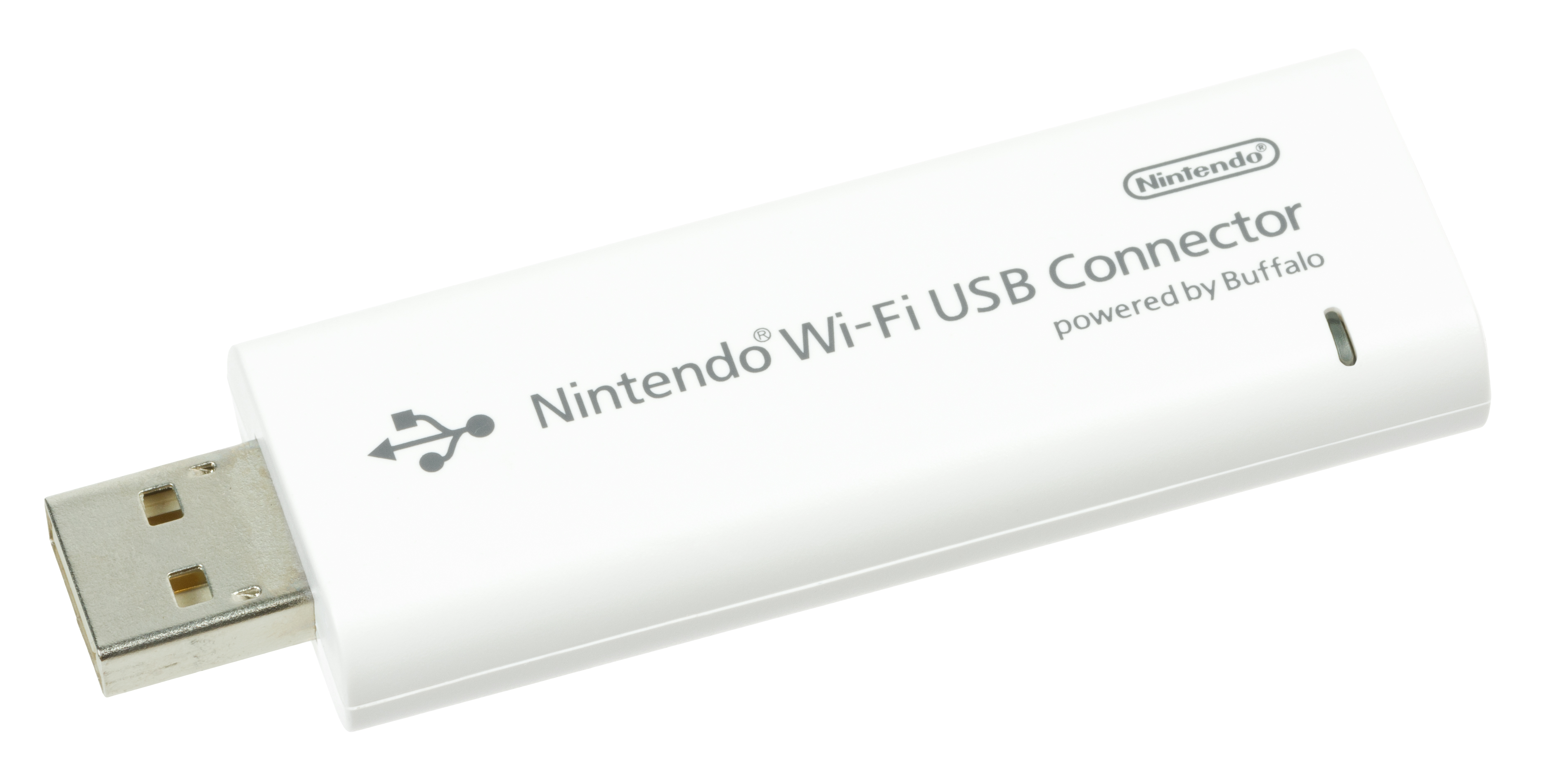 The Nintendo Wi-Fi USB Connector, a device made by Buffalo that functions as a Wi-Fi hotspot for the Nintendo DS and Wii game consoles. Since the Wii and the DS had no wired internet capability, someone without a Wi-Fi router in their home could connect this to their PC to grant their systems access to the internet.